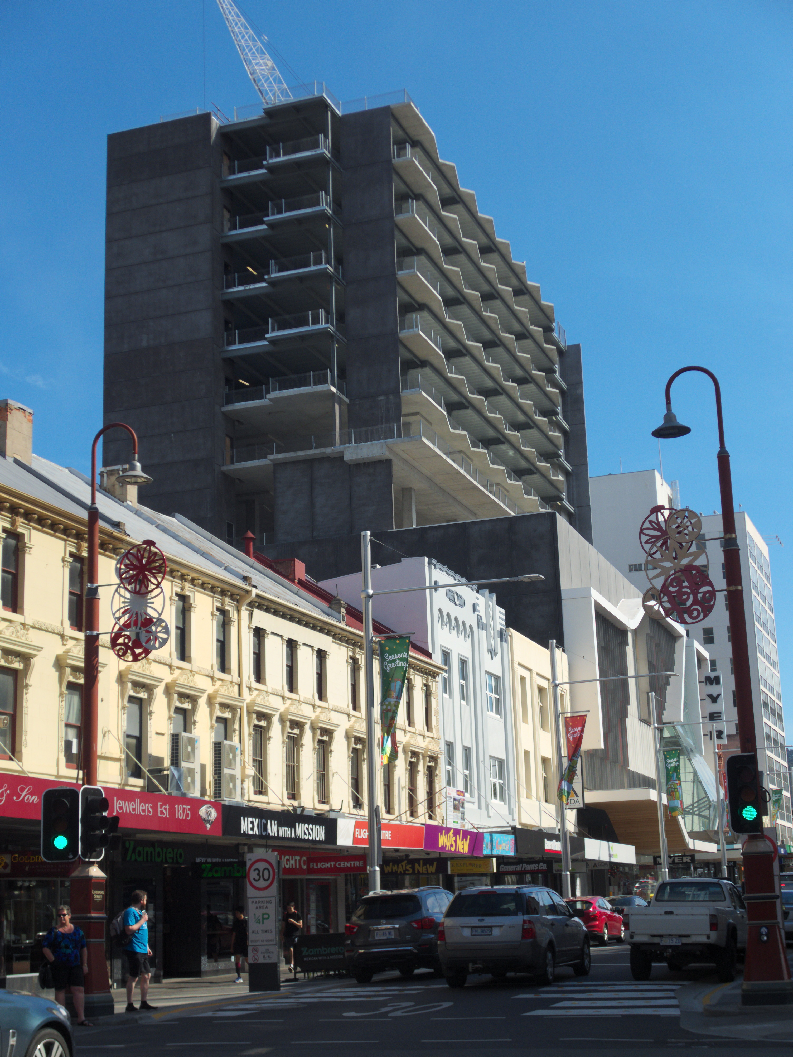 Liverpool Street, Hobart and the Myers hotel under construction.